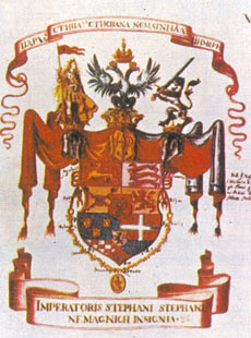 Coat of Arms of Stefan Dushan from Berlin heraldric source